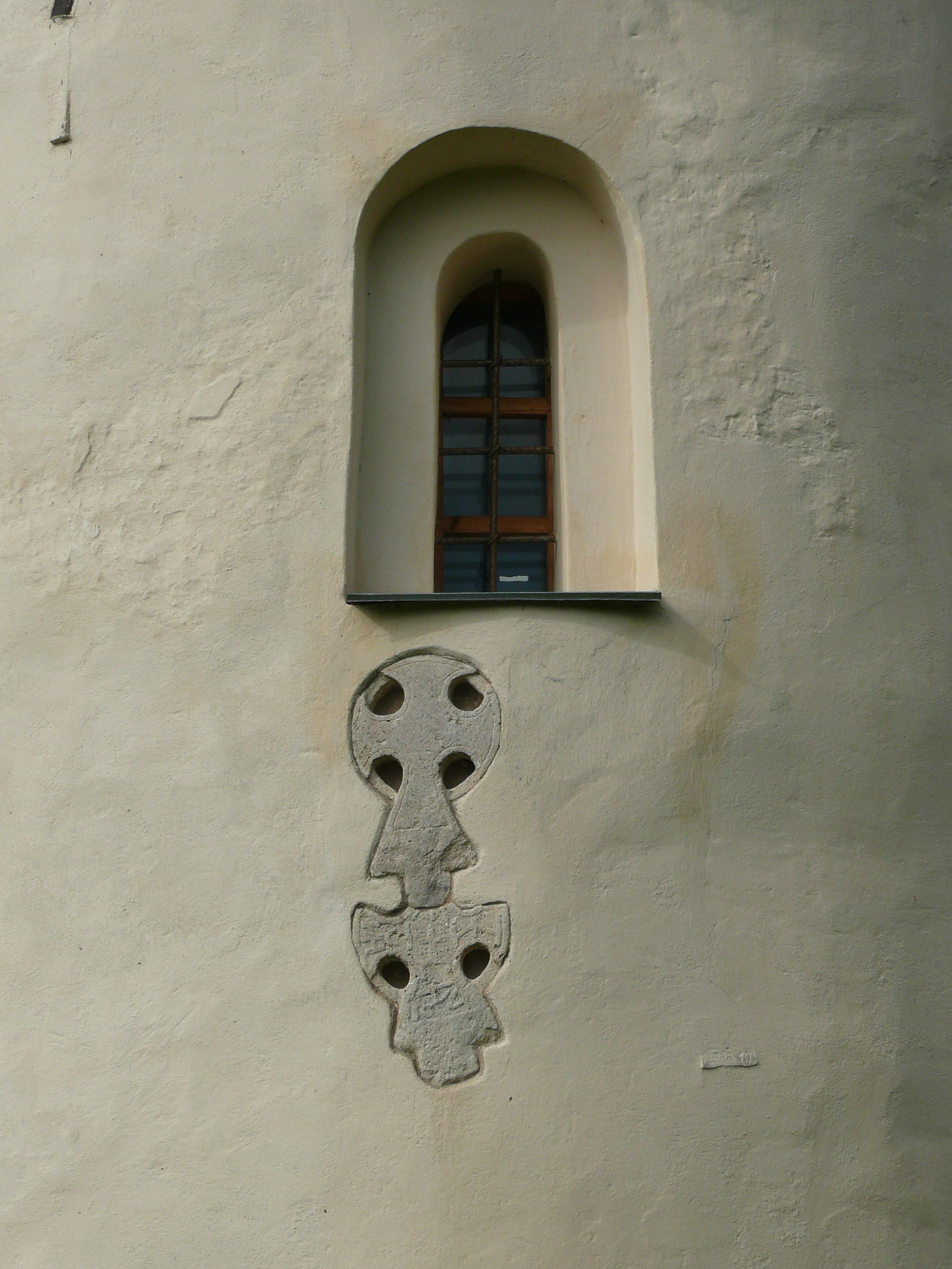 The Apse of the St. Ioann Na Vitke churche in Veliky Novgorod, Russia